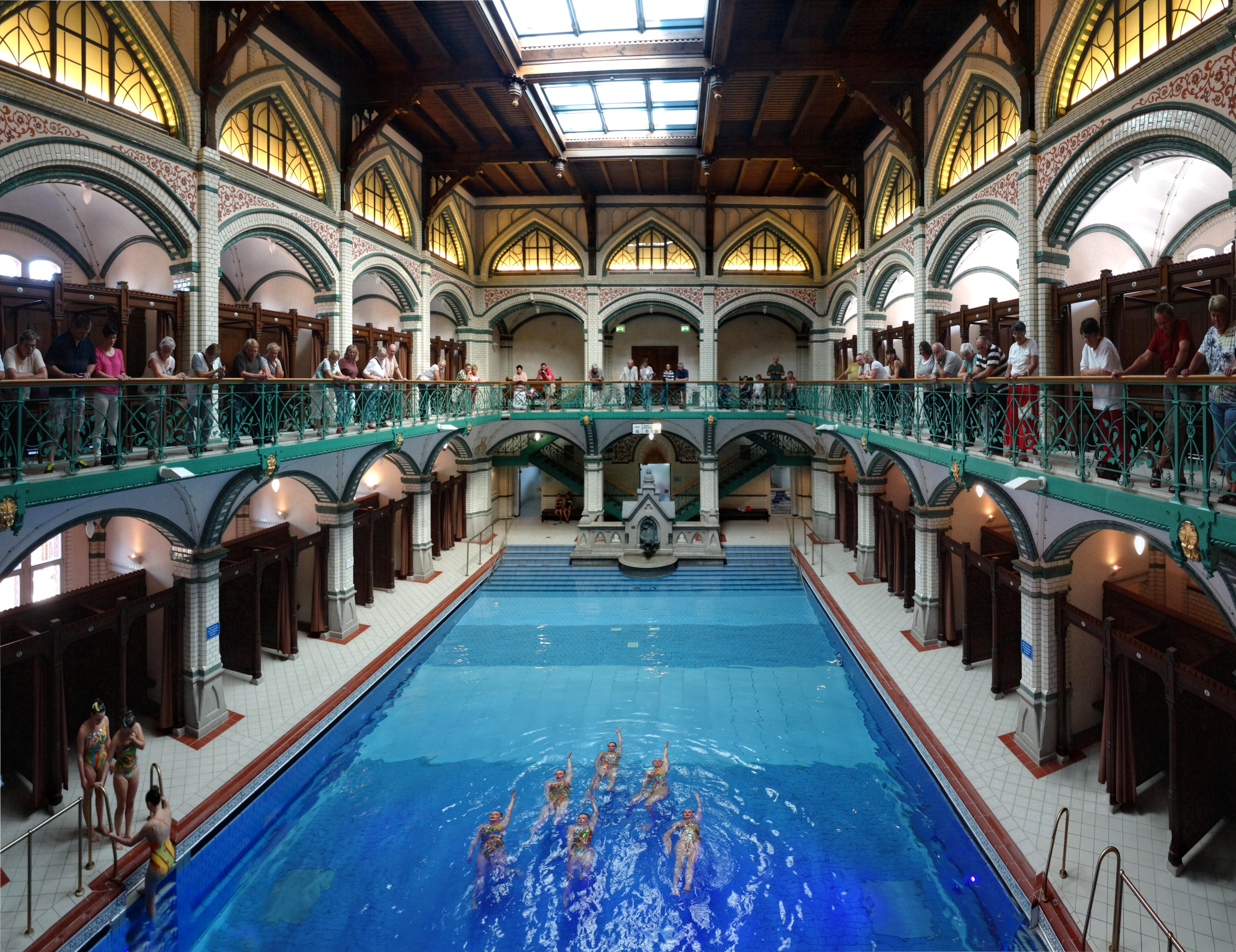 The photo shows the swimming bath of the Johannisbad Zwickau during a demonstration of synchronized swimmers.